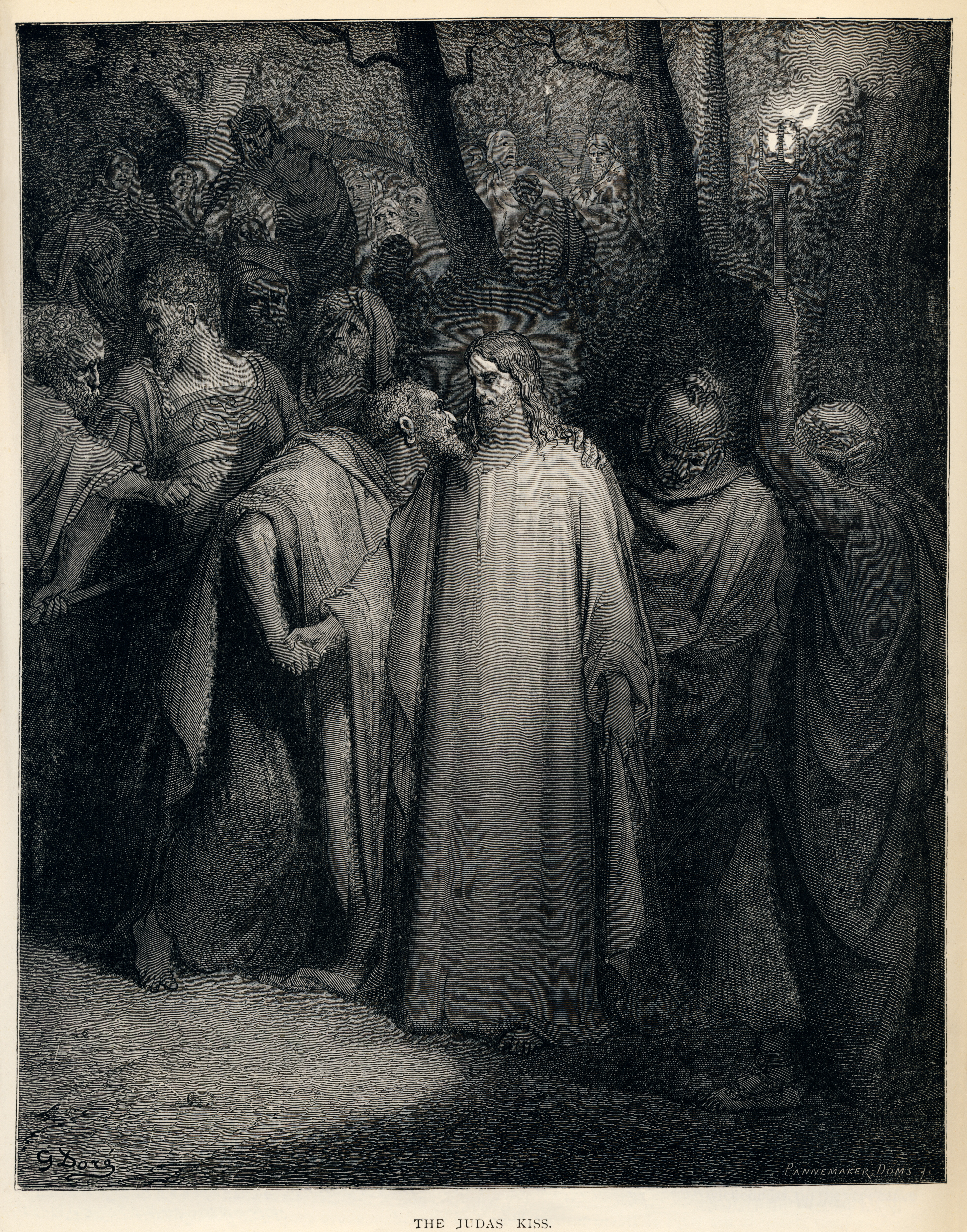 "The Judas Kiss", (Mark 14:45) by Gustave Doré. Judas kisses Jesus in order to betray him to the guards.